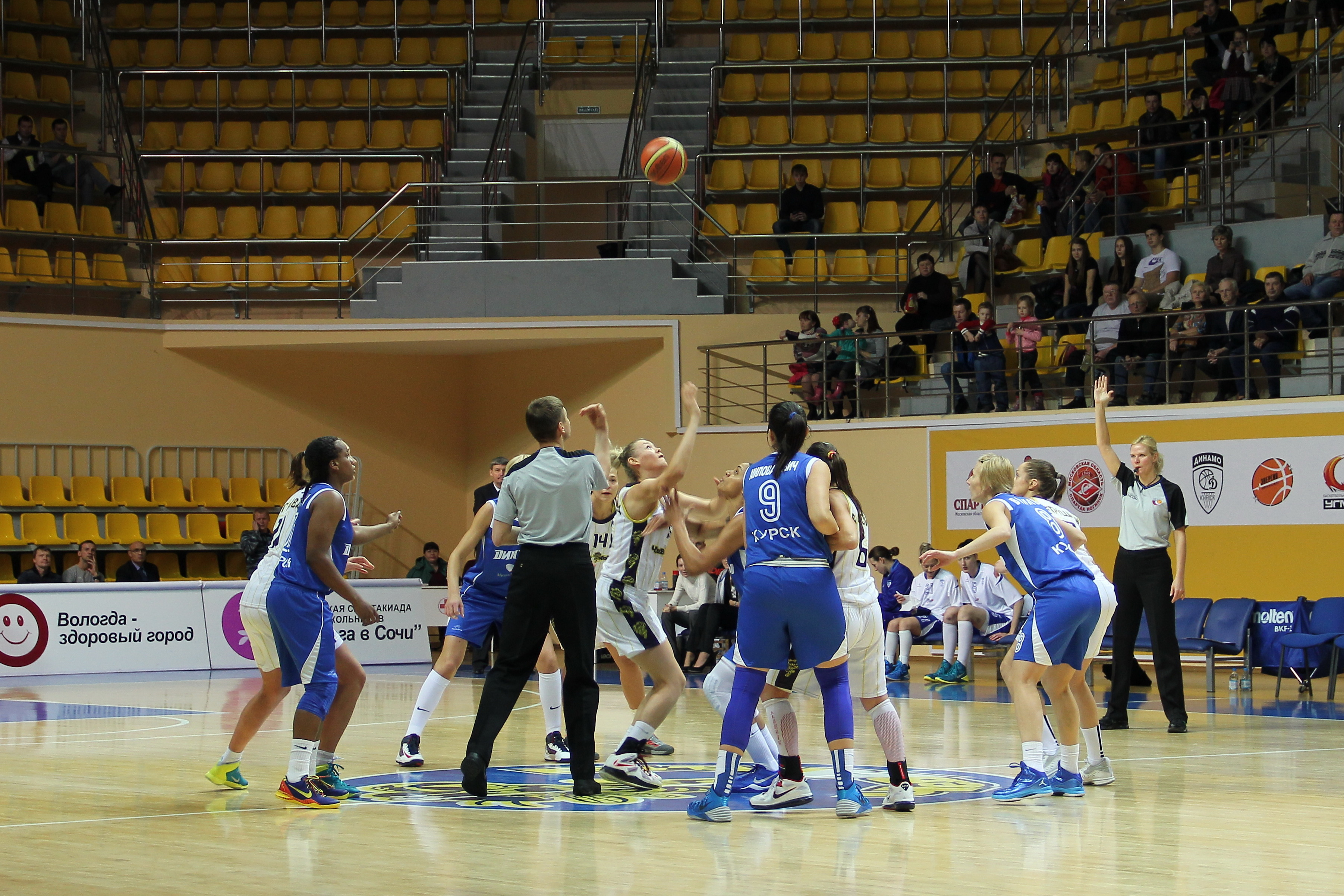 Russia, Vologda, game «Vologda-Chevakata» vs «Dinamo» (Kursk)